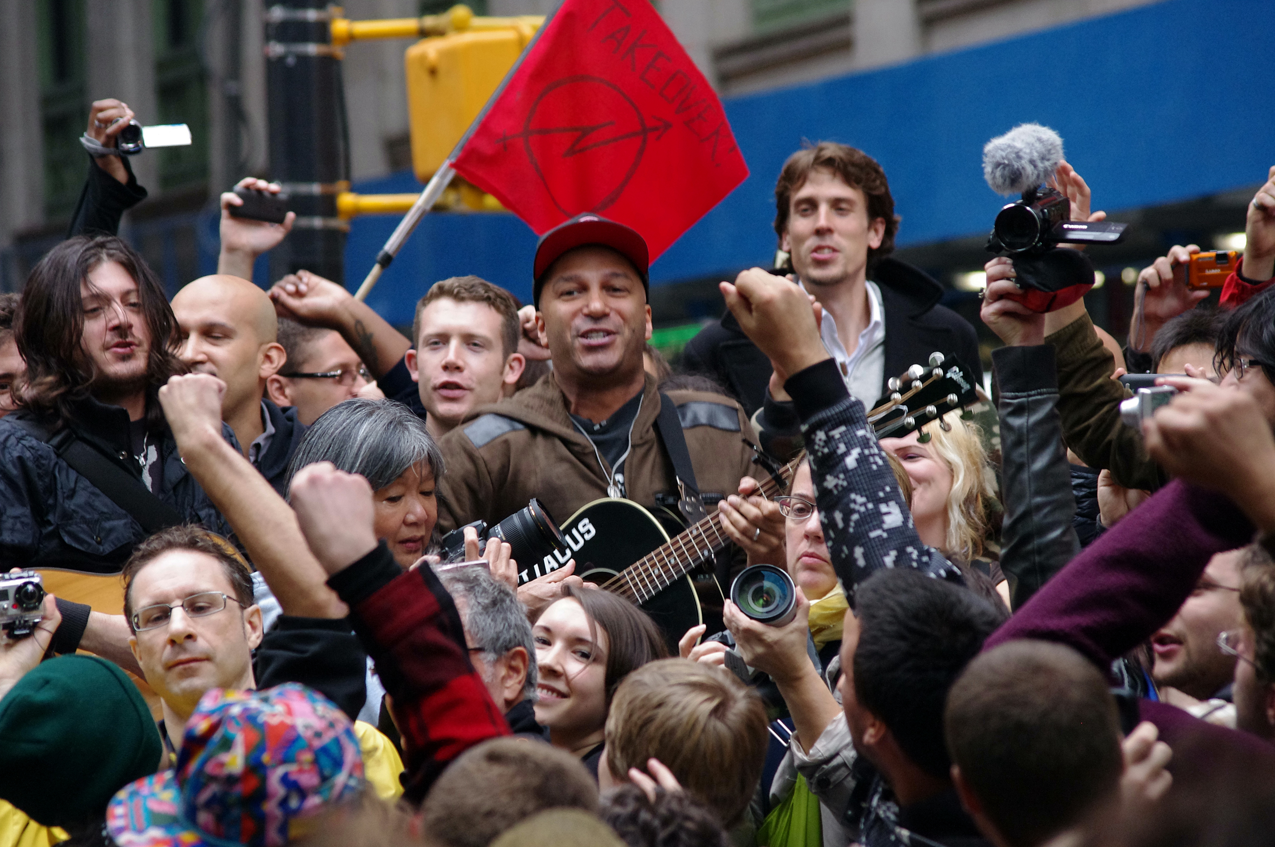 Rage Against the Machine guitarist Tom Morello playing a set on Day 28 of Occupy Wall Street in New York.